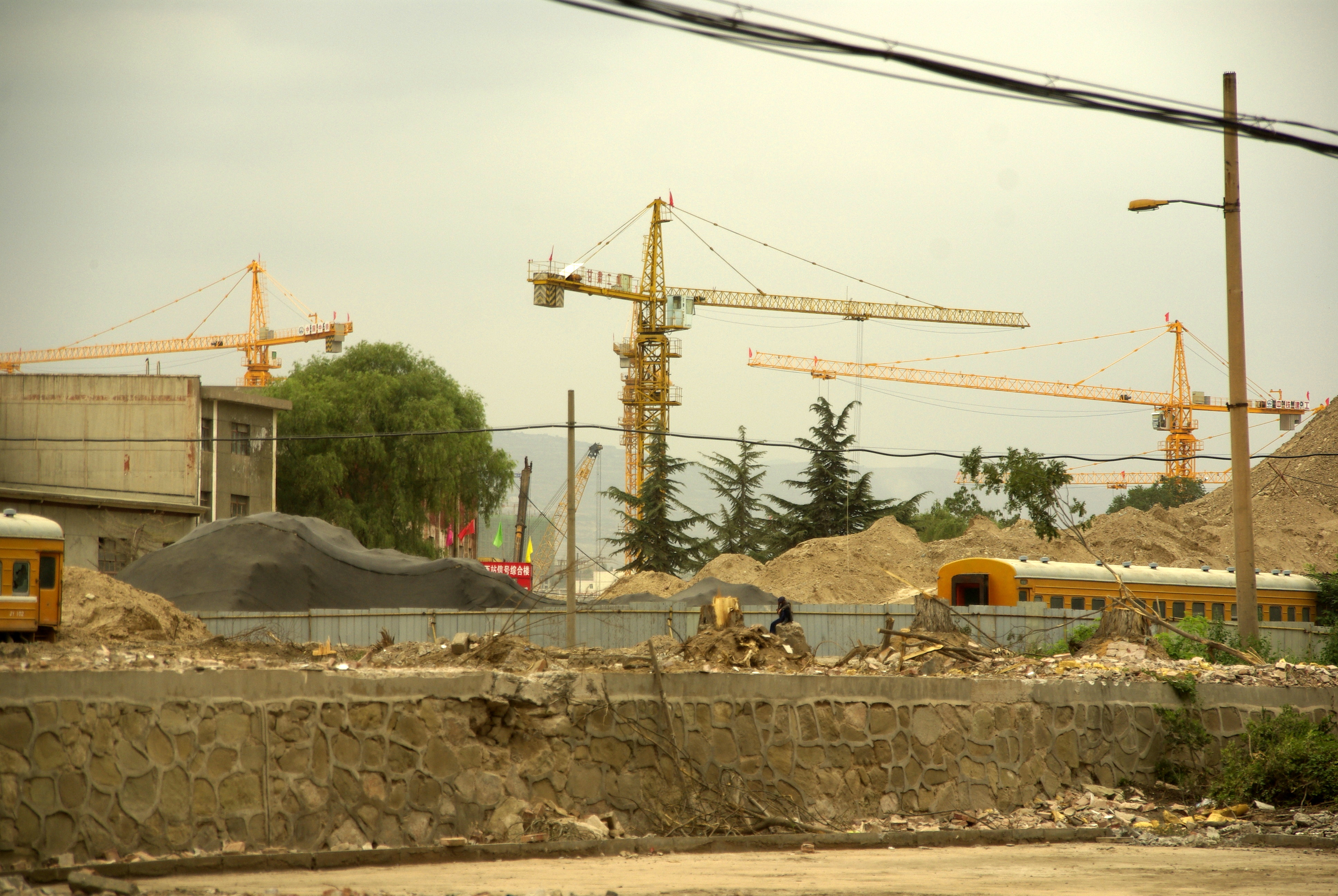 Cranes above the new High Speed Railway Lanzhou West Railway Station under construction July 2013